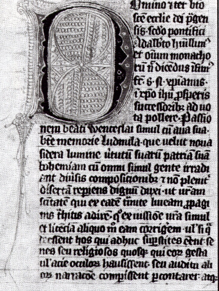 Page of a mediaeval manuscript: Vita et passio sancti Wenceslai et sancte Ludmile ave eius. Prague, 14. century